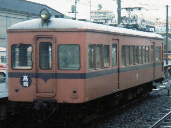 Joshin EMU No.22